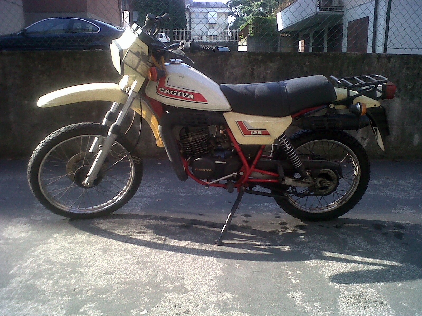 Cagiva SXT 125 model year 1984 1